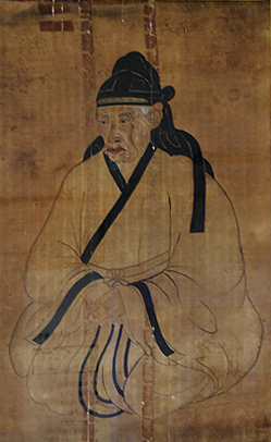 Korean Joseon Dynastys Politicians and schola.